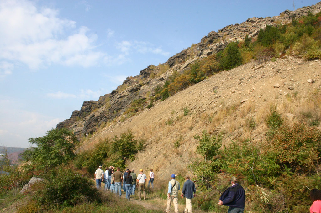 Exposure of the Shawangunk Formation at Lehigh Gap, PA, facing north. Taken by Jim Stuby (talk) at 2006 Highway Geology Symposium.